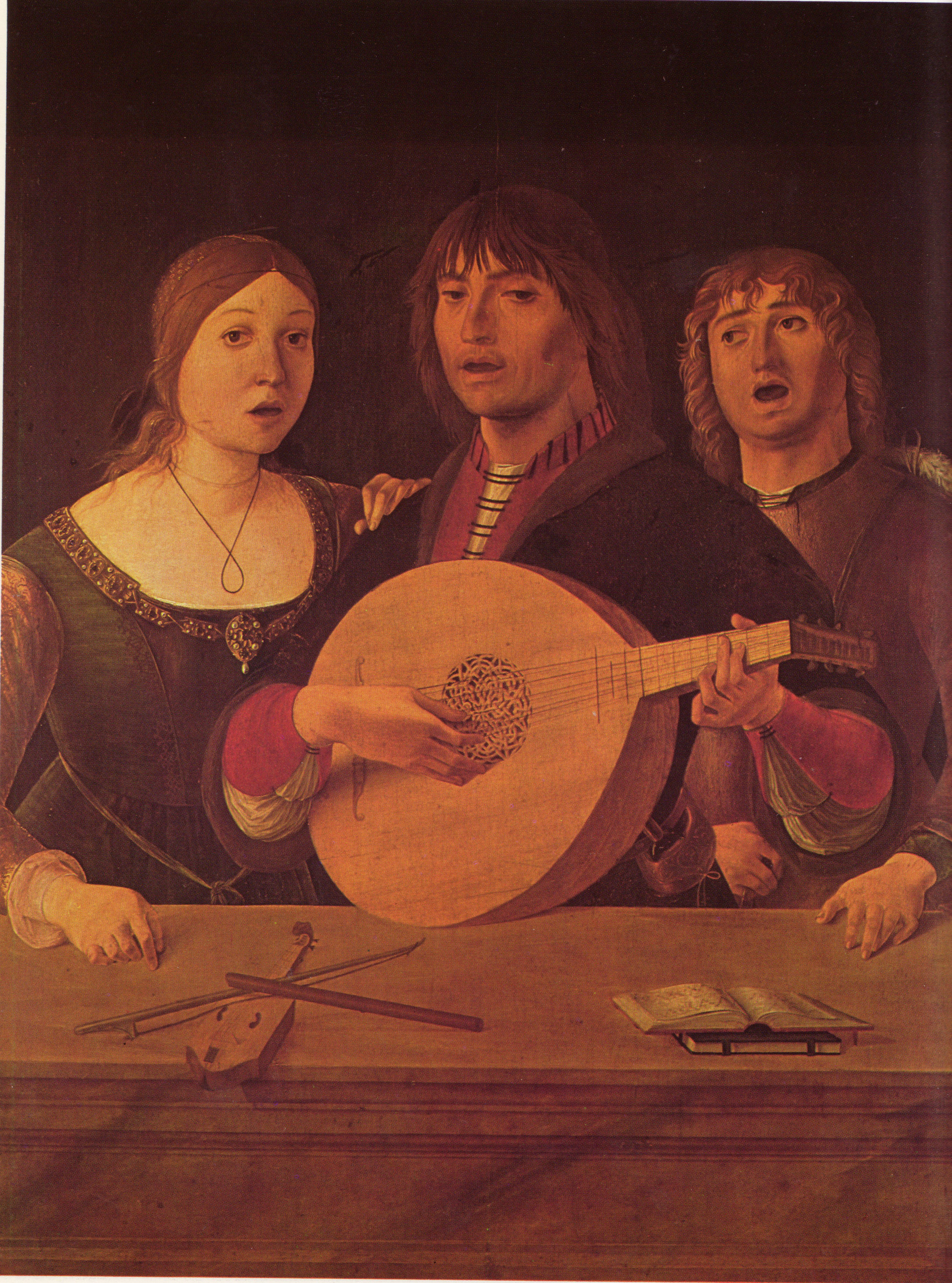 "The Concert" painting attributed to Francesco Costa